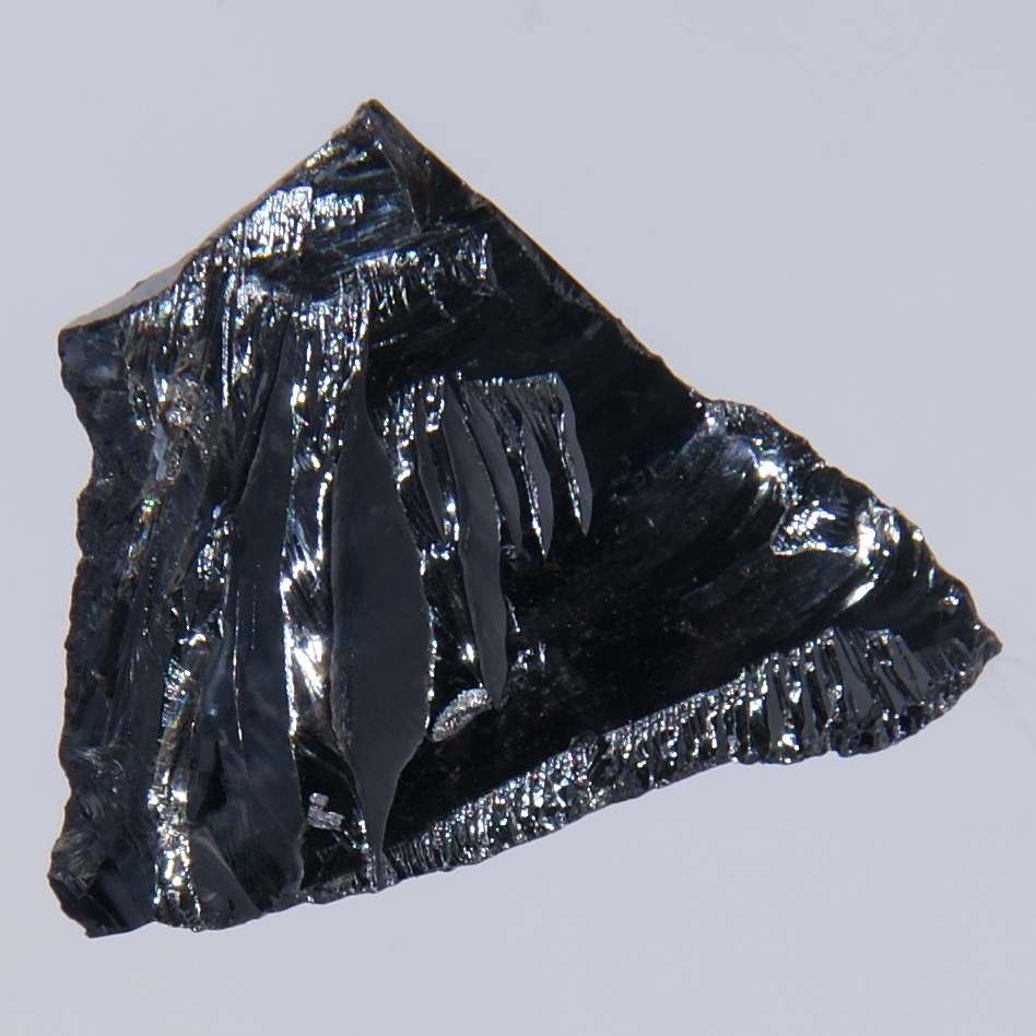 Chunk of ultrapure silicon, 2 x 2 cm.